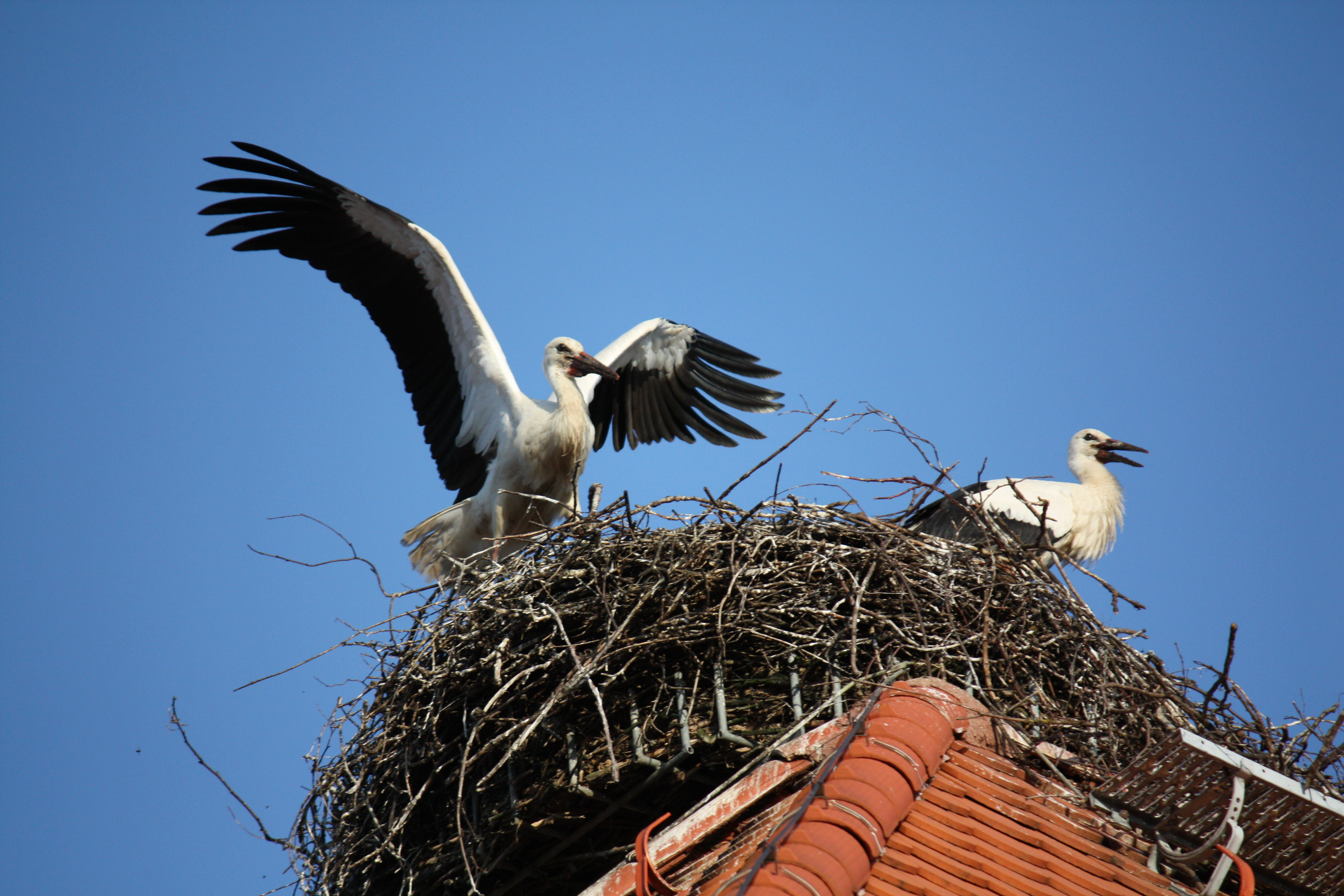 Ciconia ciconia, Markt Schwaben, Bavaria, Germany